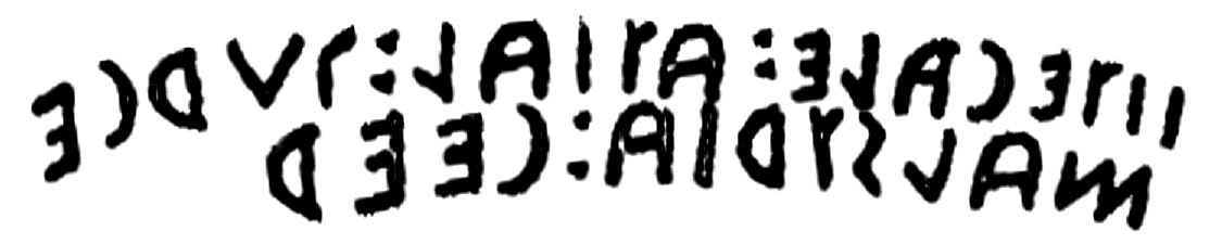 Inscription on a etruscan mirror with Turan, Atunis and Menrva: TITE CALE ATIAL TURCE MALSTRIA CVER. Tite Cale gave (this) mirror to (his) mother (as a) gift.